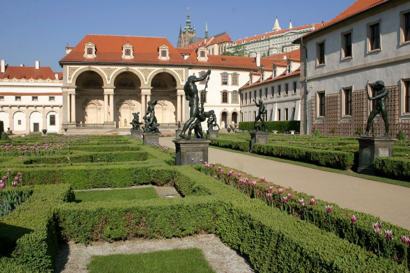 Gardens of the Waldstein palace in Mala Strana, Prague.